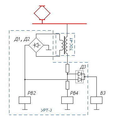 Simlplified scheme of the alternate/direct current control device of the double-current electric locomotive VL82M